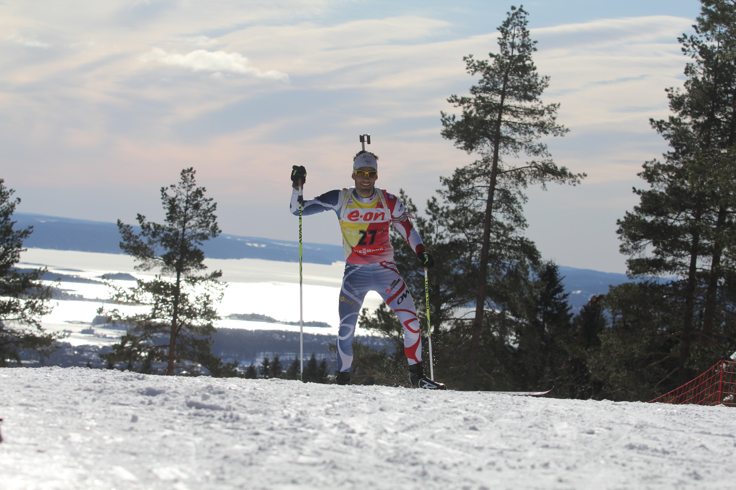 Martin Fourcade at Biathlon Weltcup 2013 in Oslo